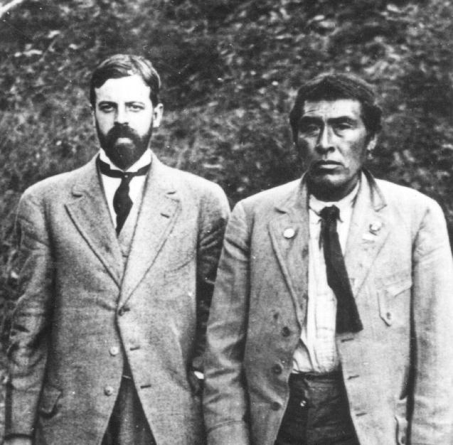 Ishi, last yahi indian Ishi, the last known member of the Yahi tribe, with anthropologist Alfred L. Kroeber.